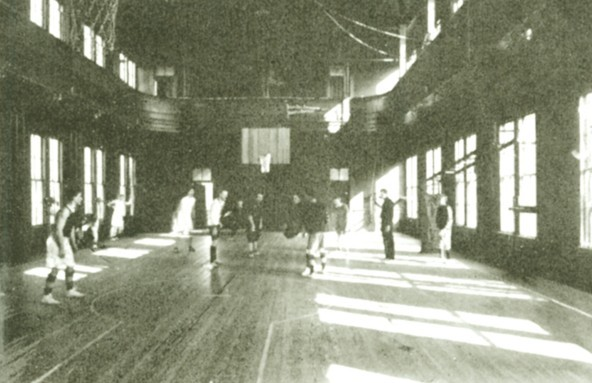 Basketball game inside The Ark (Duke University) circa 1912